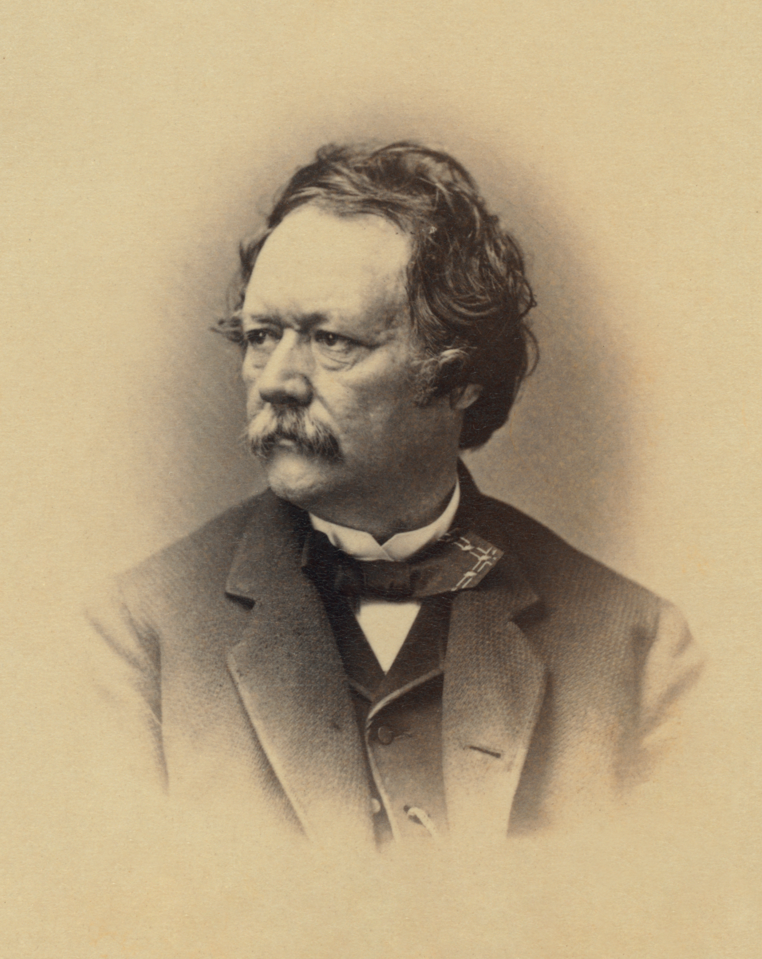 Henry G. Stebbins, Congressman from New York